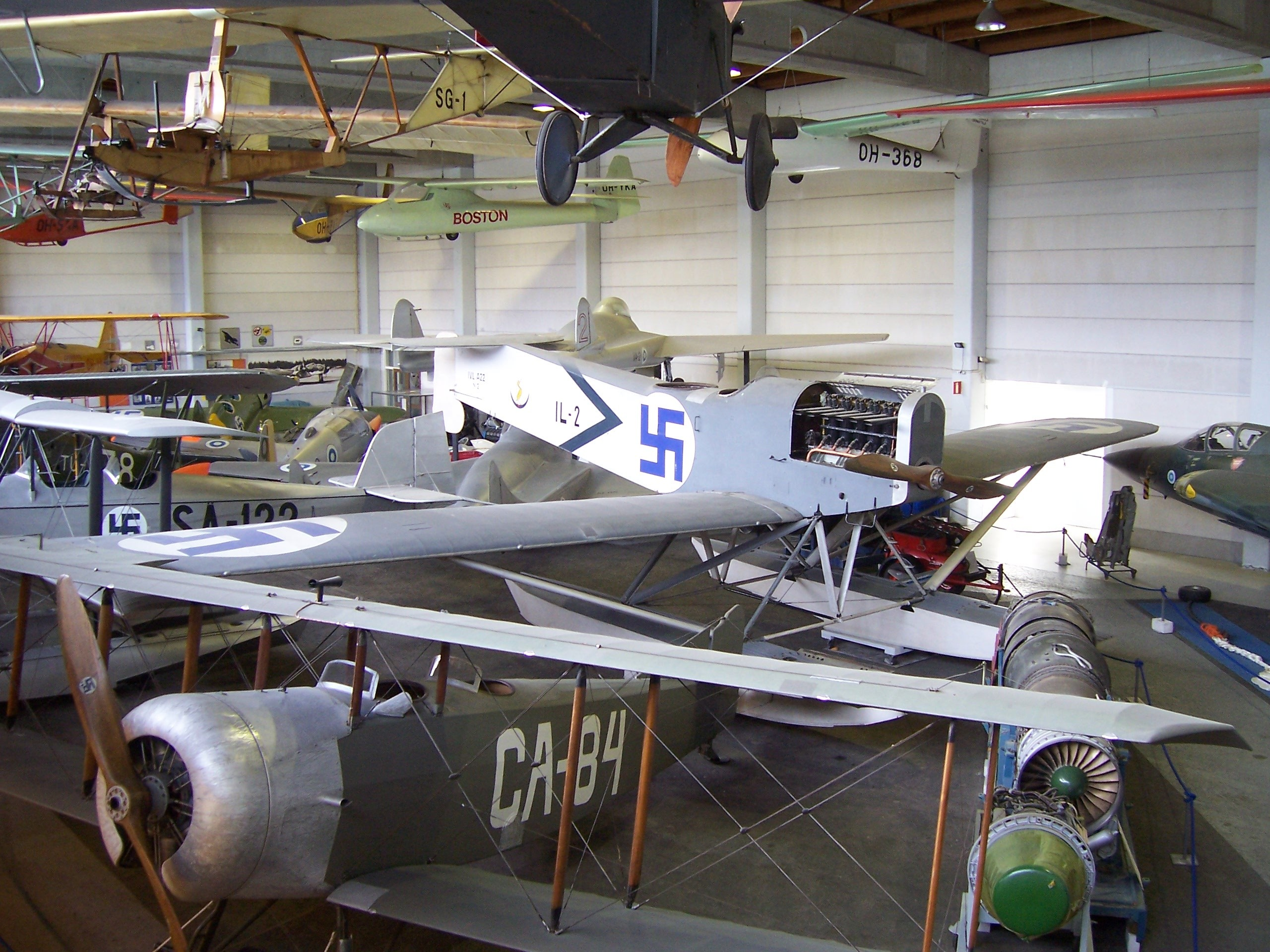 Finnish Aviation Museum exhibition hall 1